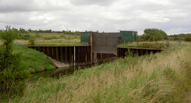 It didn't work this year! Flood prevention sluice gate.